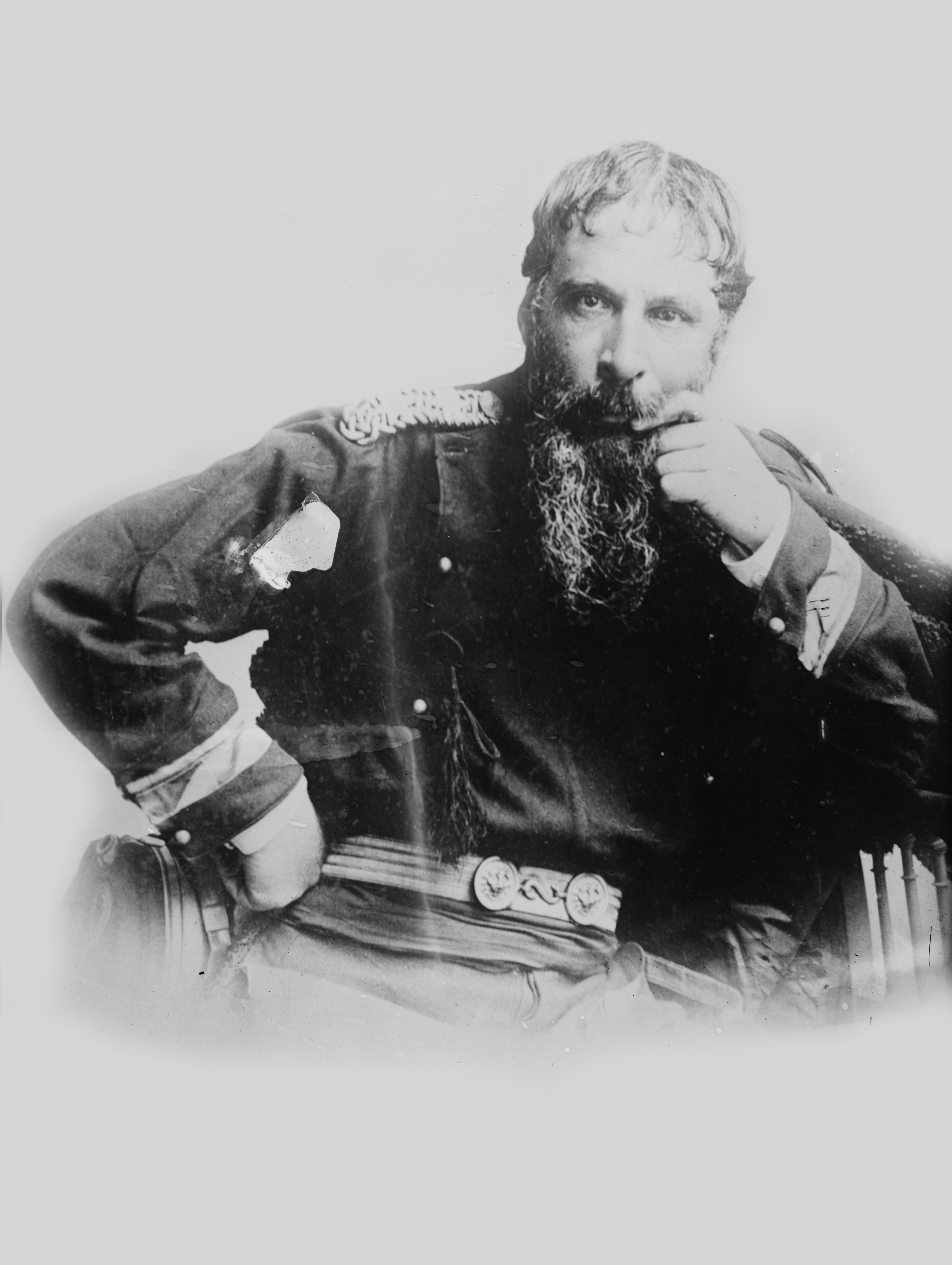 Photographic negative (glass) of Ricciotti Garibaldi (1847-1924), son of Giuseppe Garibaldi and Anita Garibaldi.